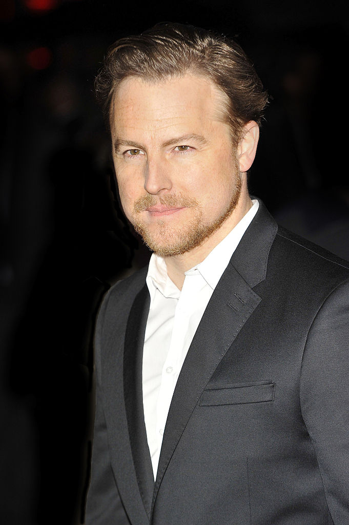 Samuel West arriving at the Mayor's Gala screening of Hyde Park on Hudson, London Film Festival